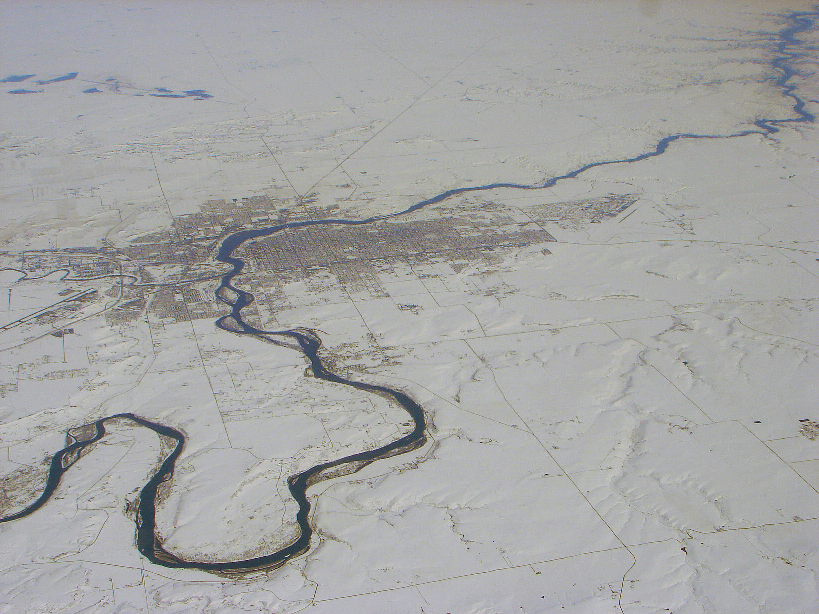 Aerial view of Great Falls, Montana — and the Missouri River.